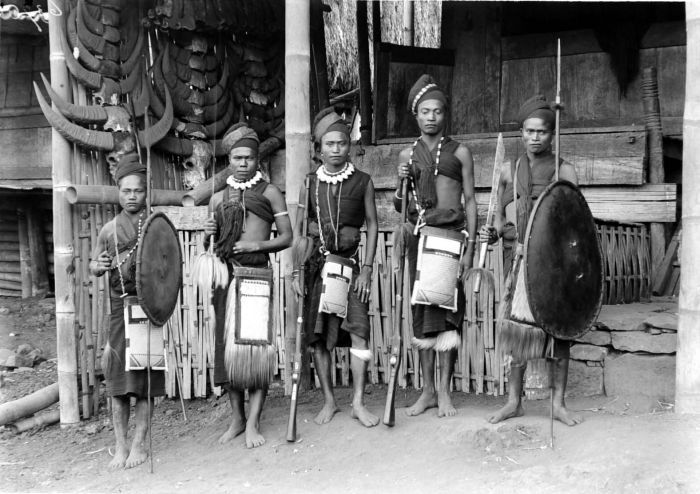 Men of the Ngadatribe in warriorscostume with lances, rifles and shields, Flores.